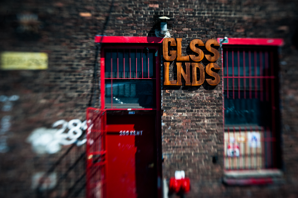 Exterior of Glasslands with sign